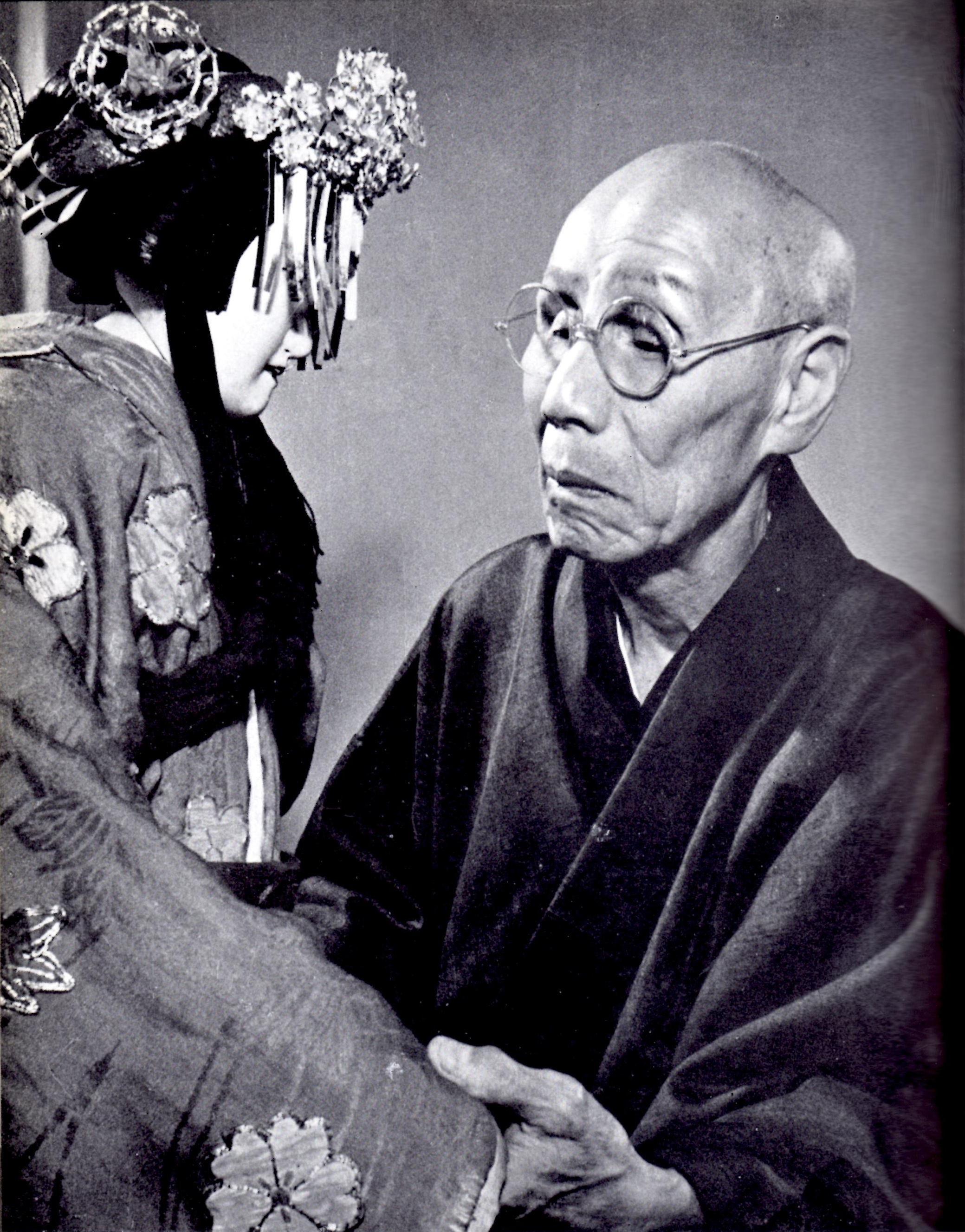 Japanese Bunraku puppeteer, Yoshida, Bungorō(1869-1962)